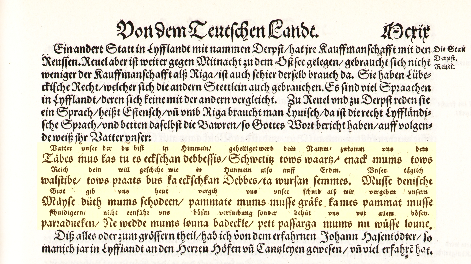 The Lord's Prayer, Latvian language as published 1588 by Sebastian Muenster in his Book Cosmographey